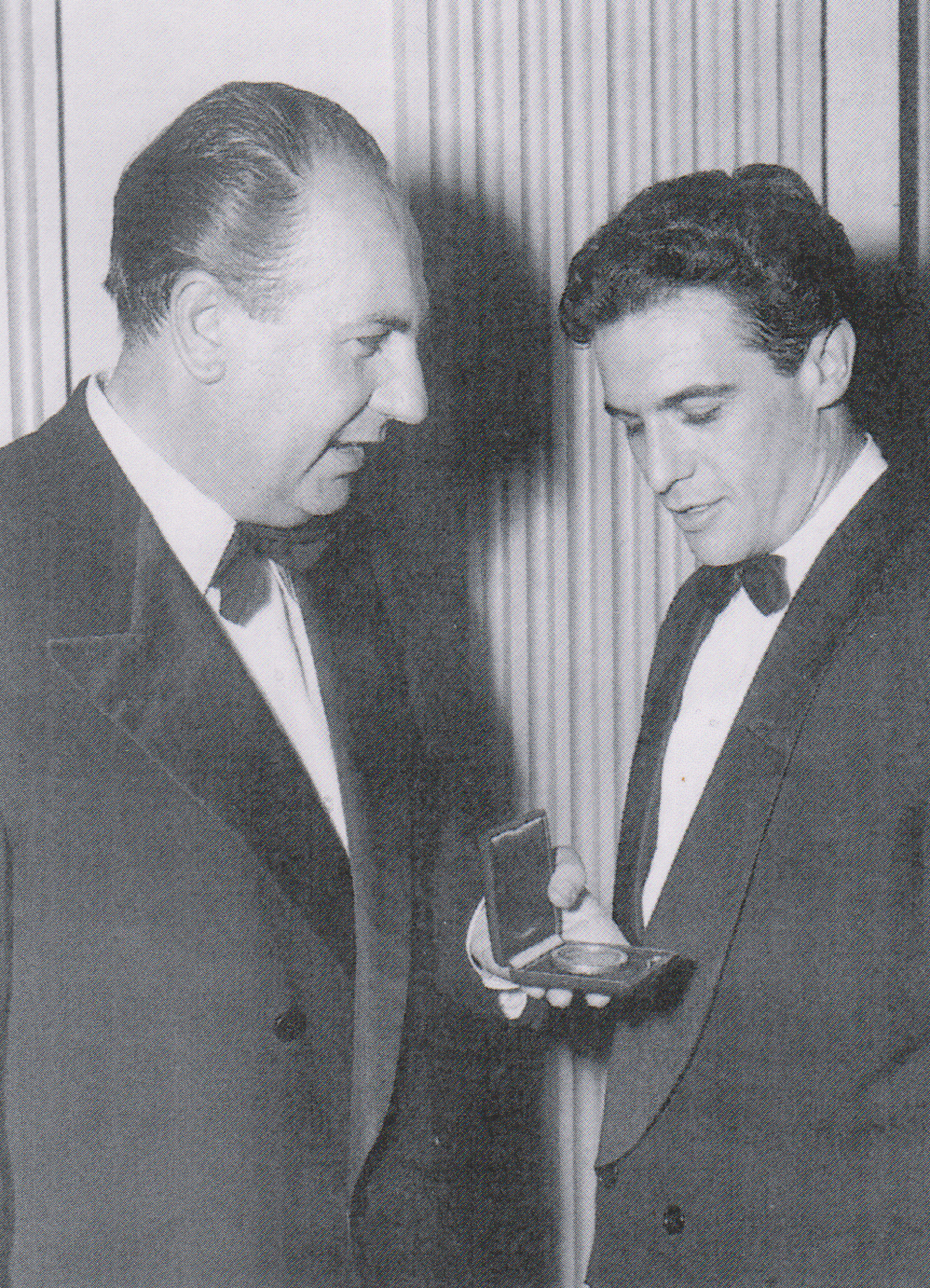 Rafael Gil and Francisco Rabal receiving the David O'Selznich award for 'La Guerra de Dios' at Berlin's Festival (1954)